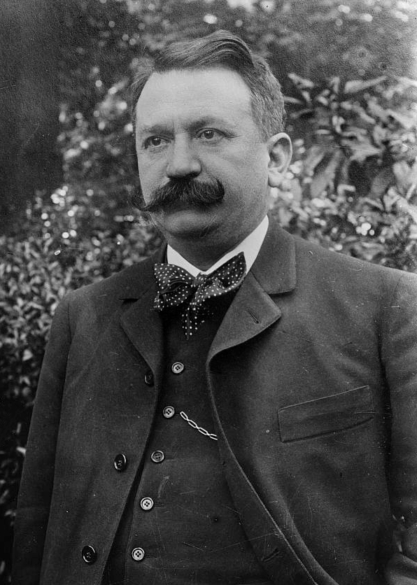 Gaston Doumergue (LOC) Bain News Service, publisher. Gaston Doumergue [between ca. 1910 and ca. 1915] 1 negative : glass ; 5 x 7 in. or smaller. Notes: Title from unverified data provided by the Bain News Service on the negatives or caption cards. Forms part of: George Grantham Bain Collection (Library of Congress). Format: Glass negatives. Repository: Library of Congress, Prints and Photographs Division, Washington, D.C. 20540 USA, General information about the Bain Collection is available at Persistent URL: Call Number: LC-B2- 2992-4